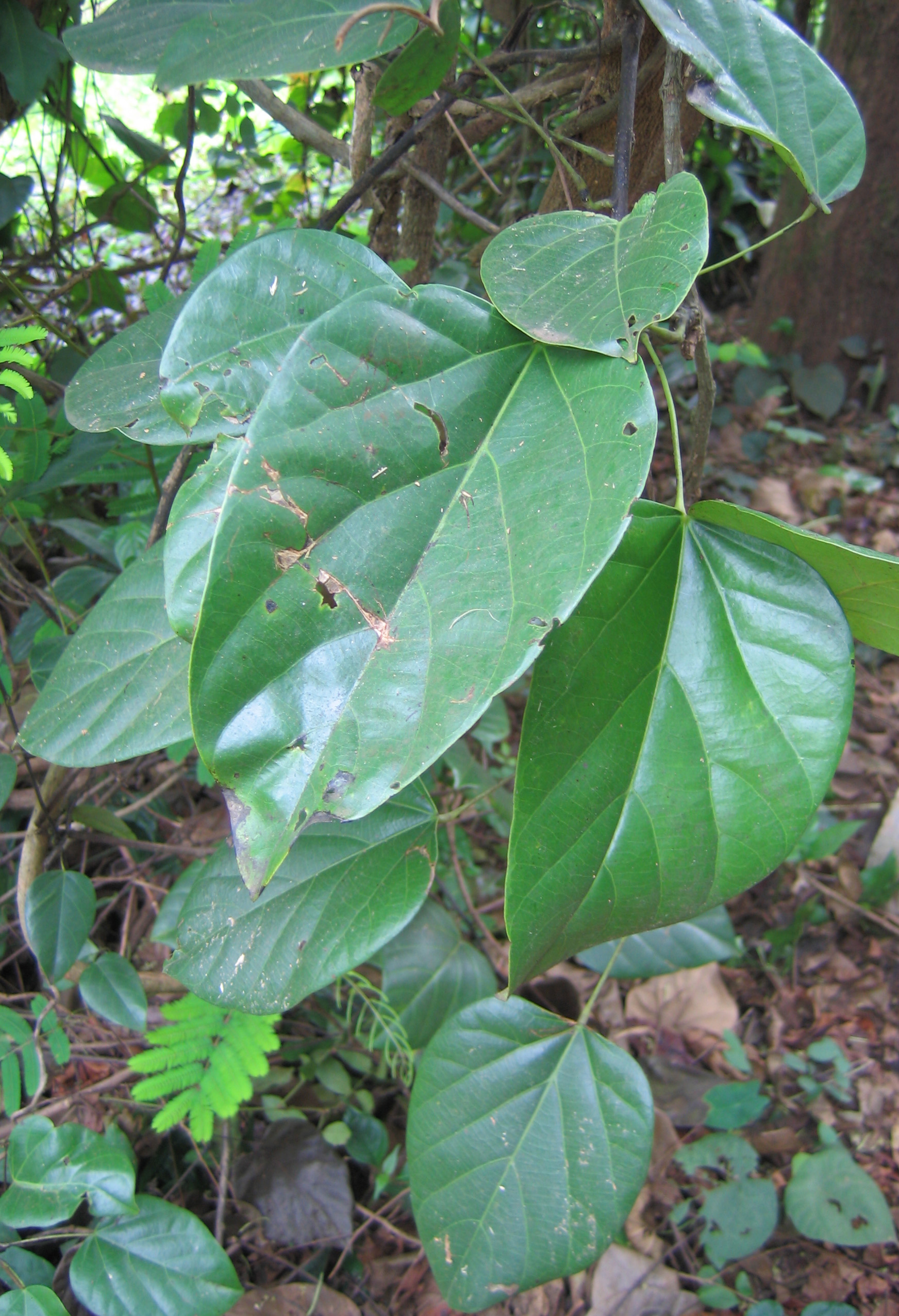 Anamirta Cocculus - Cocculus Indicus